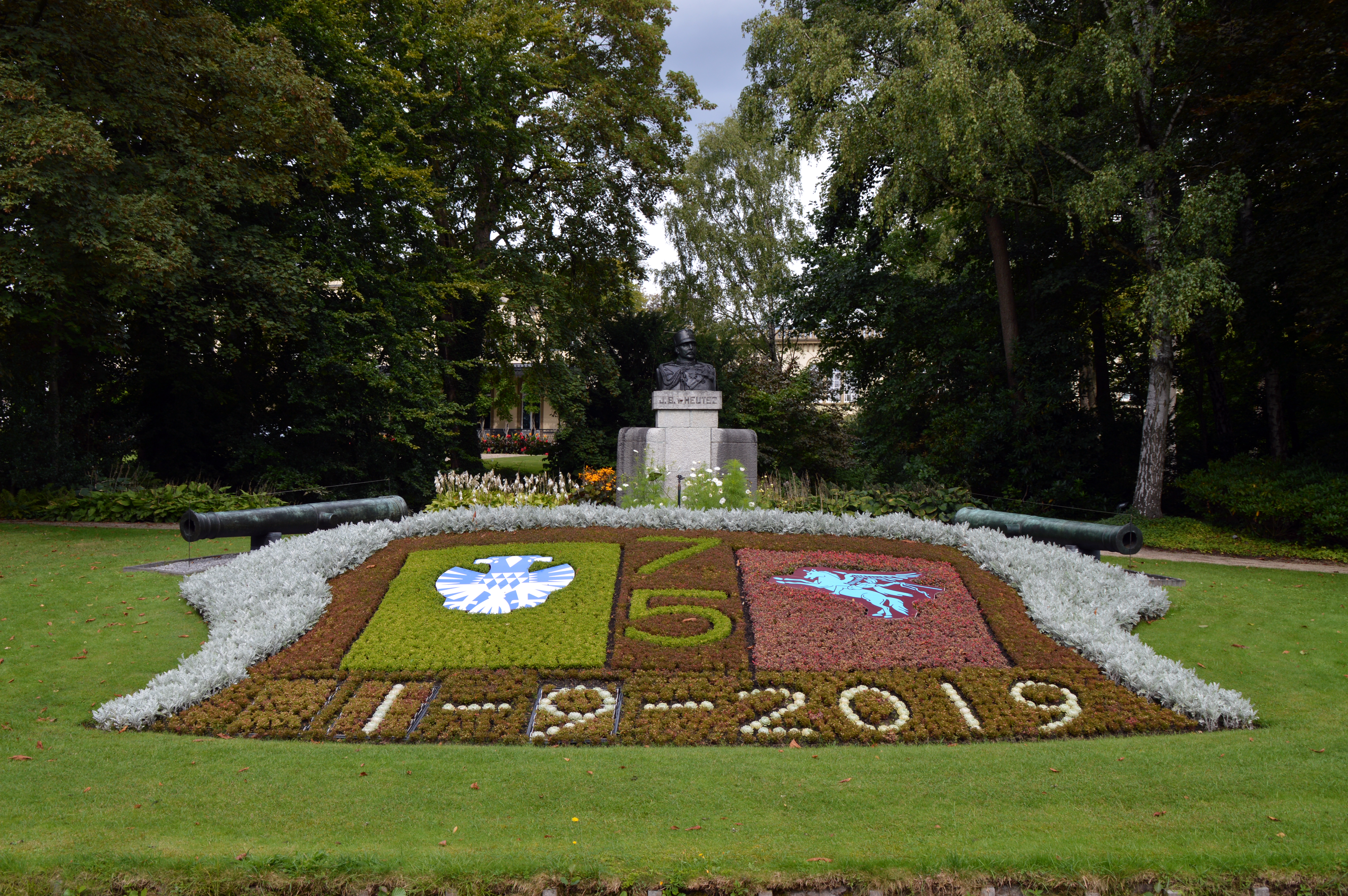 Joannes Benedictus van Heutsz bust and plant calendar Bronbeek Arnhem